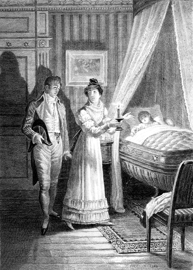 Illustration of Honoré de Balzac's The Woman of Thirty (1831): In Julie's Bedroom.